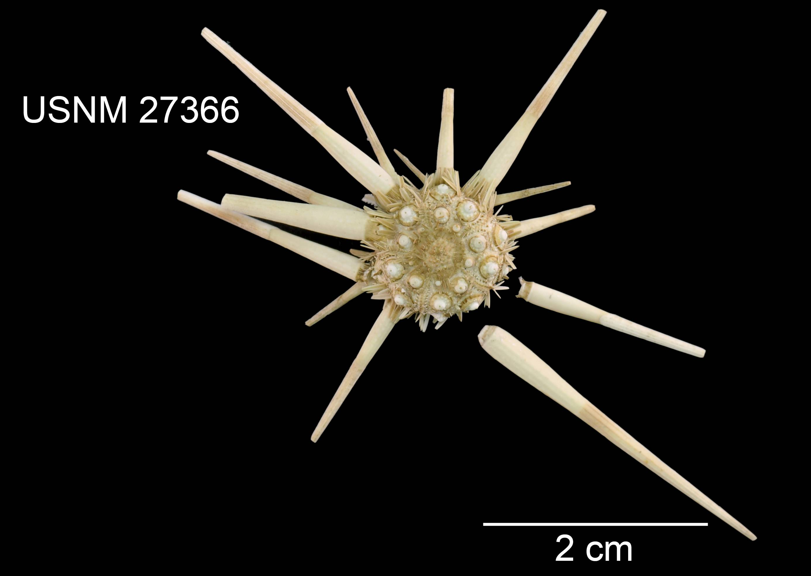 PRESERVED_SPECIMEN; Preparations: Dry; Acanthocidaris hastigera A.Agassiz & H.L.Clark, 1907; Individual count: 1; Type status: SYNTYPE; Identified by: Agassiz, Alexander E.; Clark, Hubert L.; Event date: 19020718T00:00:00Z; Additional description: dorsal